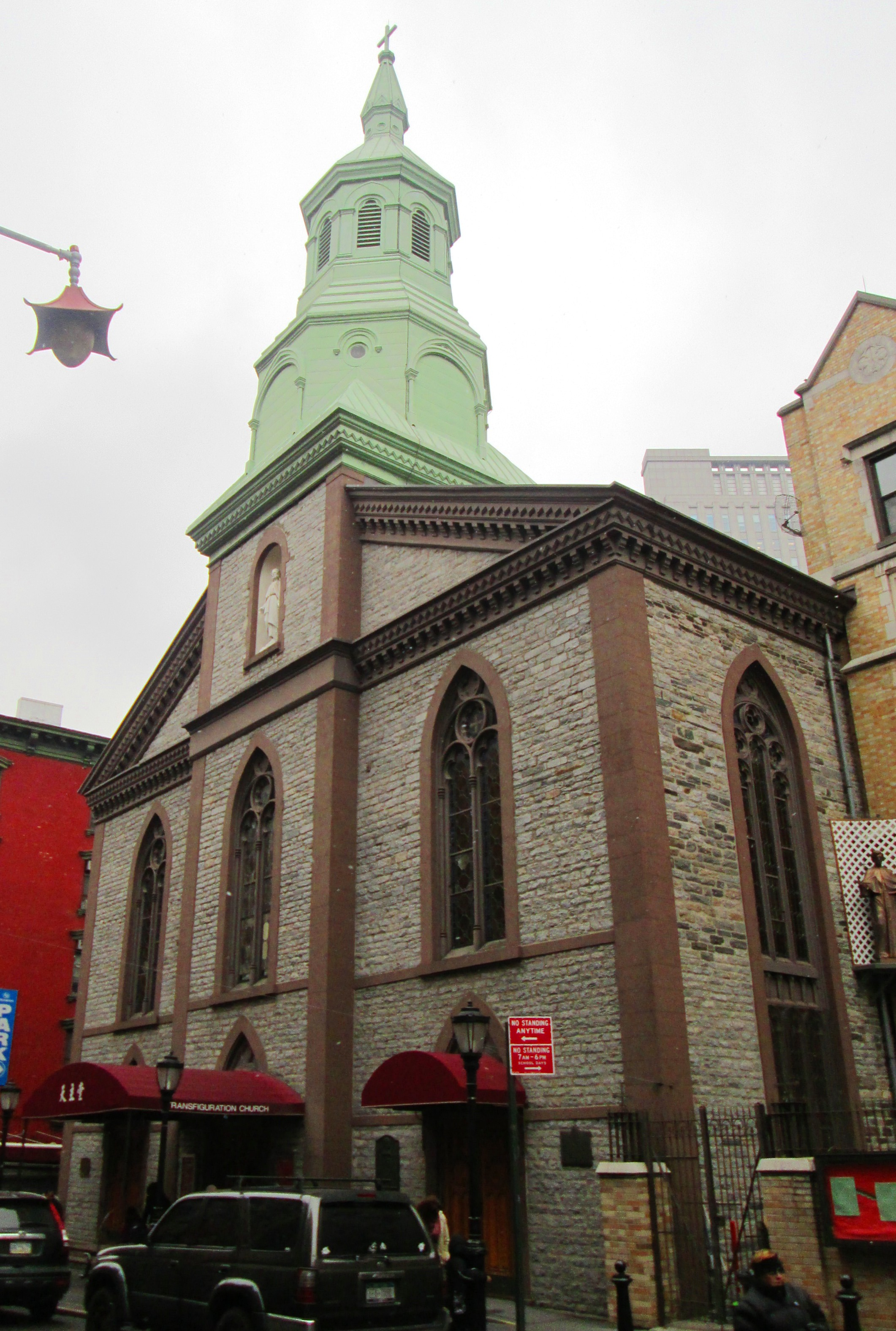 The Roman Catholic Church of the Transfiguration at 25 Mott Street between Mosco and Pell Streets in the Chinatown neighborhood of Manhattan, New York City, was built in 1801 as the Zion English Lutheran Church later the Zion Protestant Episcopal Church, and was designed in the Georgian style. It was sold in 1853 to the Roman Catholic Church of the Immigrants, which later changed its name to the Church of the Transfiguration.